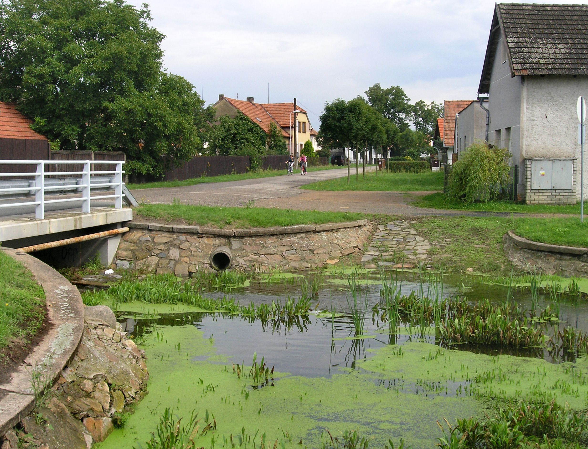 Small pond in Horka I village, Czech Republic